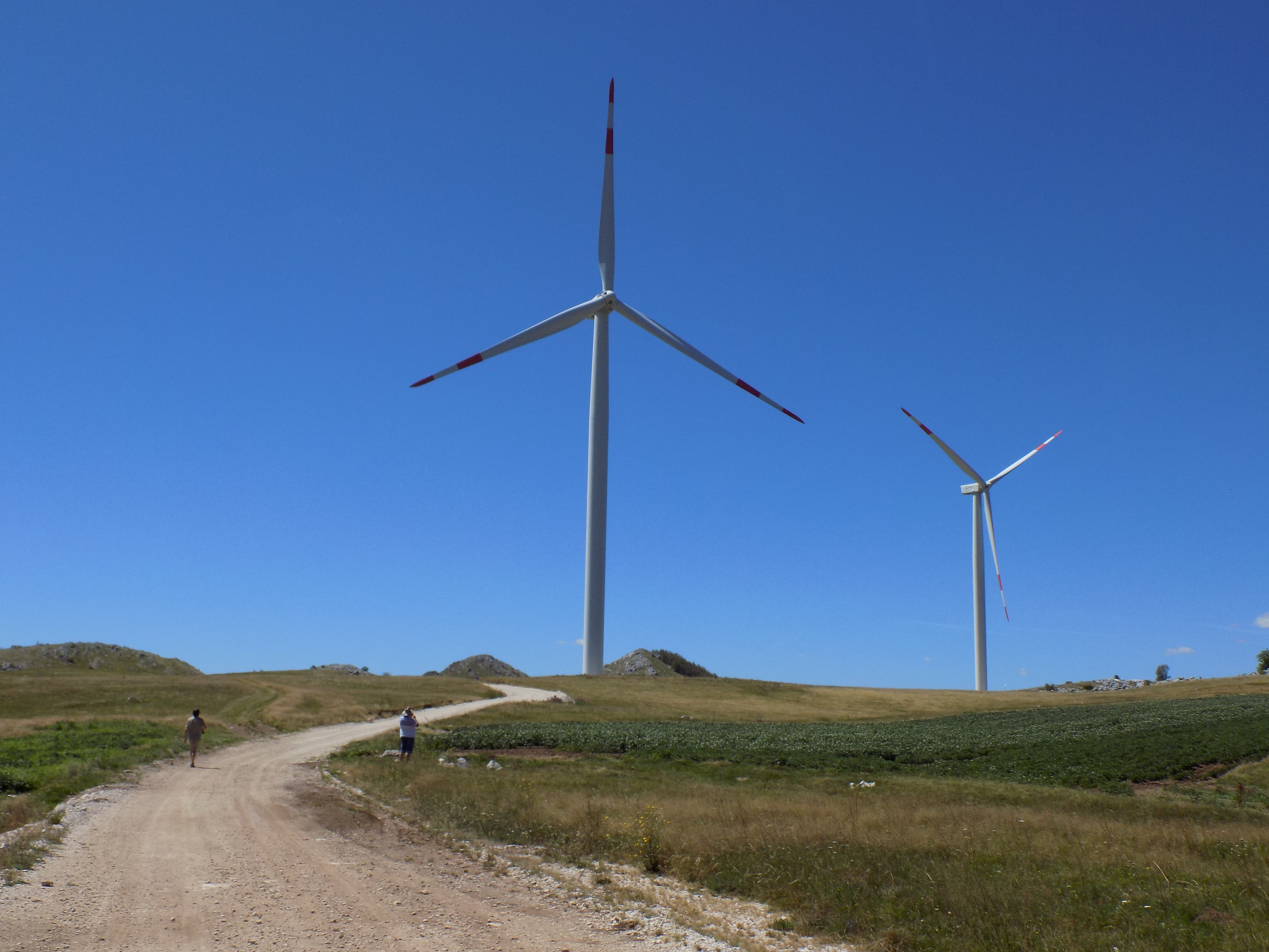 Krnovo Wind farm, Montenegro